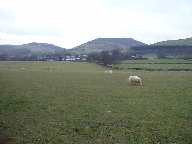 Farmland near Llanbedr Dyffryn Clwyd. The village of Llanbedr DC is visible across the fields.